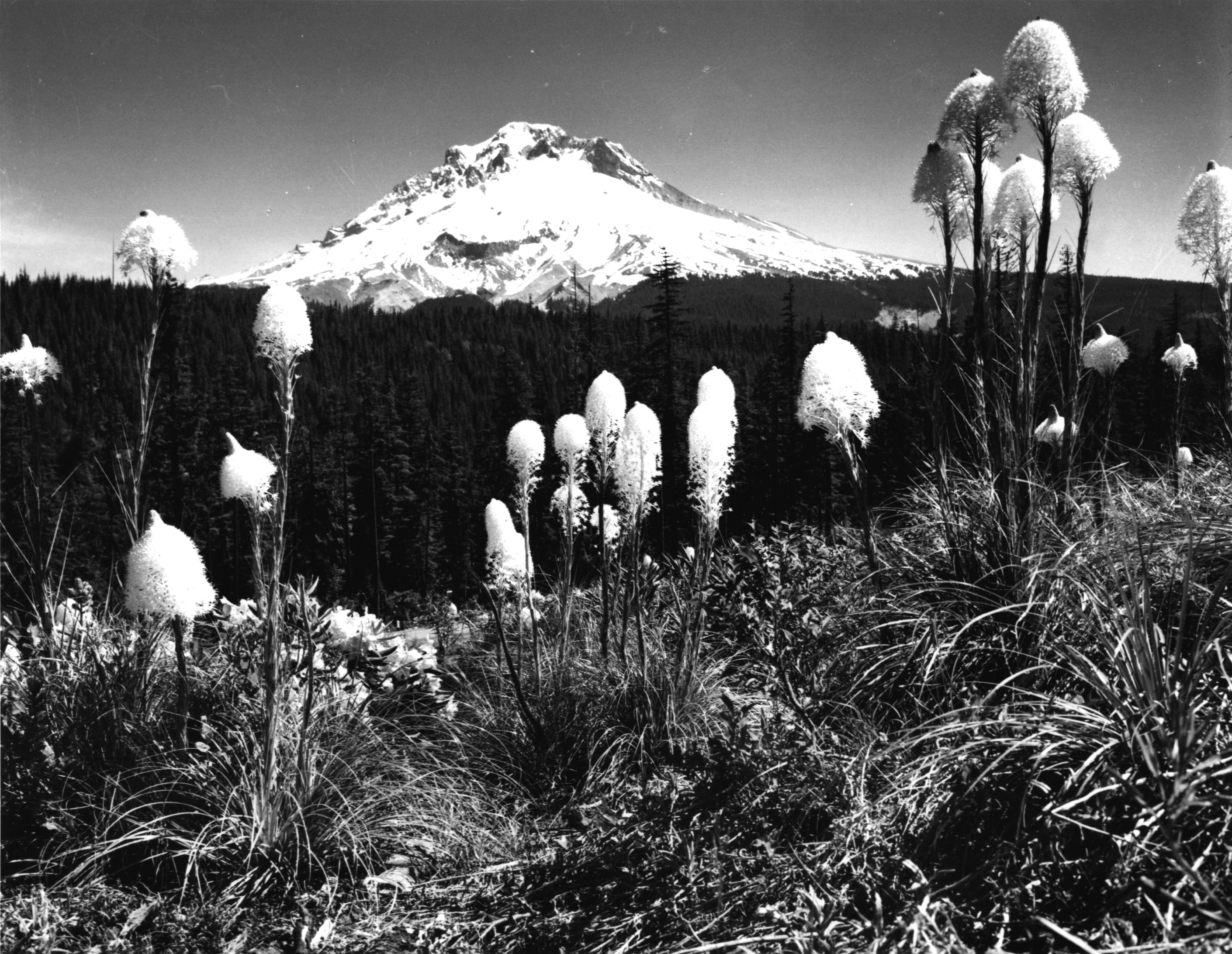 Mount Hood and Squaw Grass (Xerophyllum tenax), Oregon